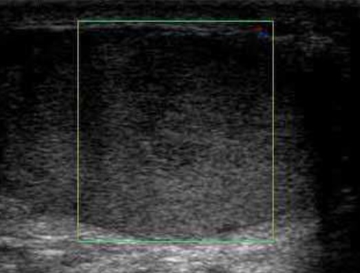 Scrotal ultrasonography of a testicular torsion.